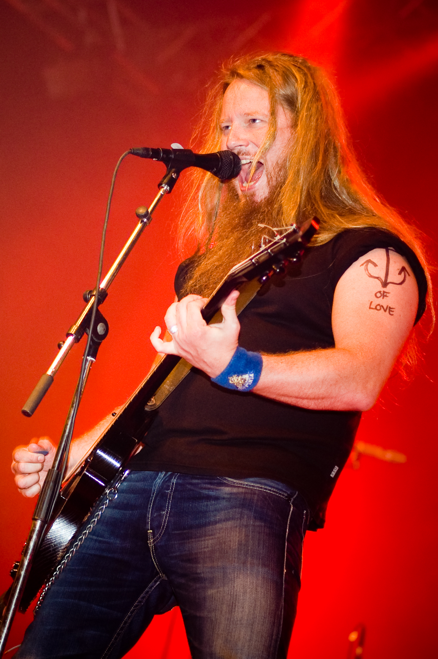 Vocalist and guitarist Jouni Hynynen of Kotiteollisuus performs at the Ilosaarirock festival on the 11th of July 2008 in Joensuu, Finland.